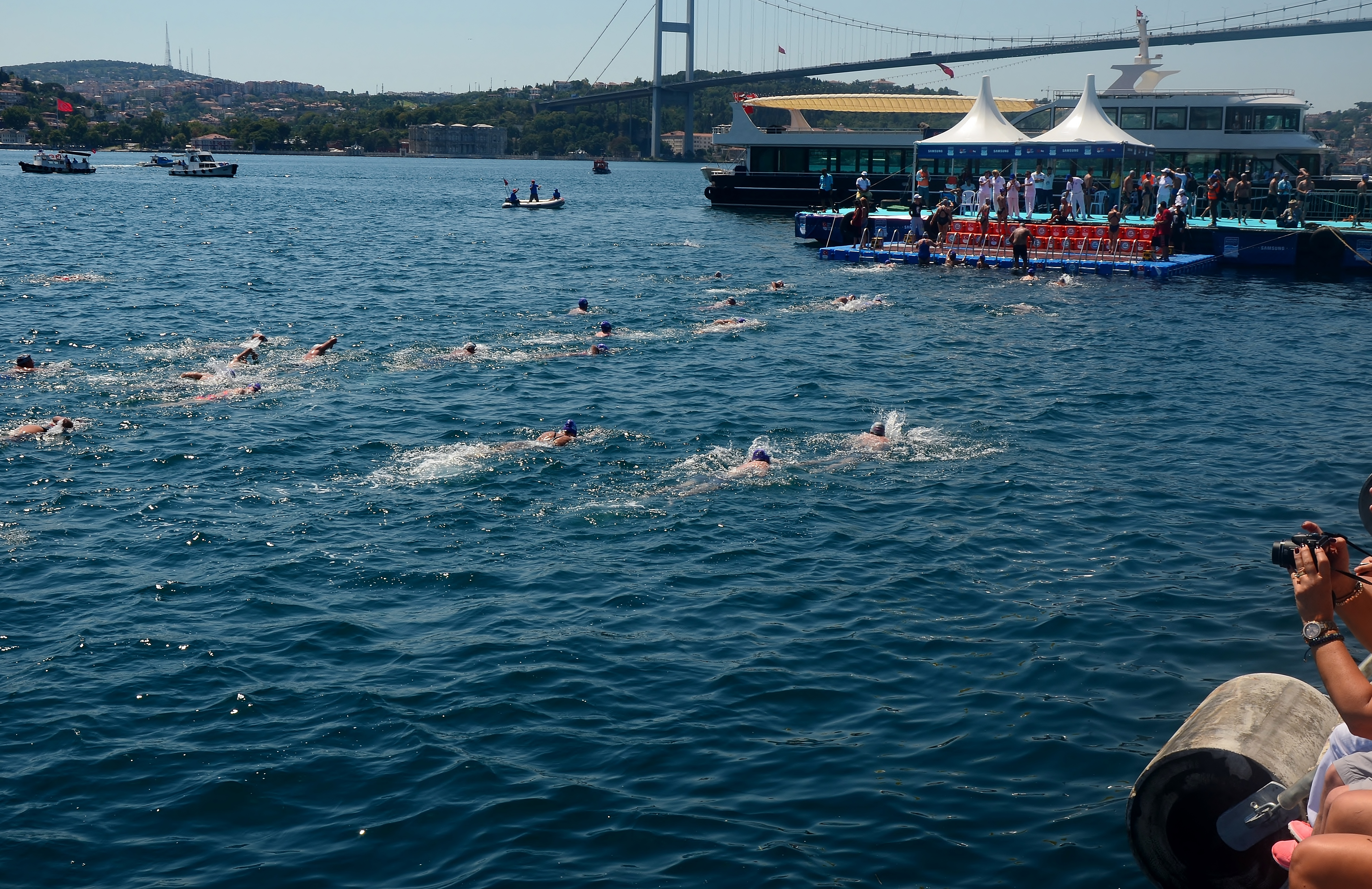 Finish phase at the 2016 Bosphorus Intercontinental Swim.